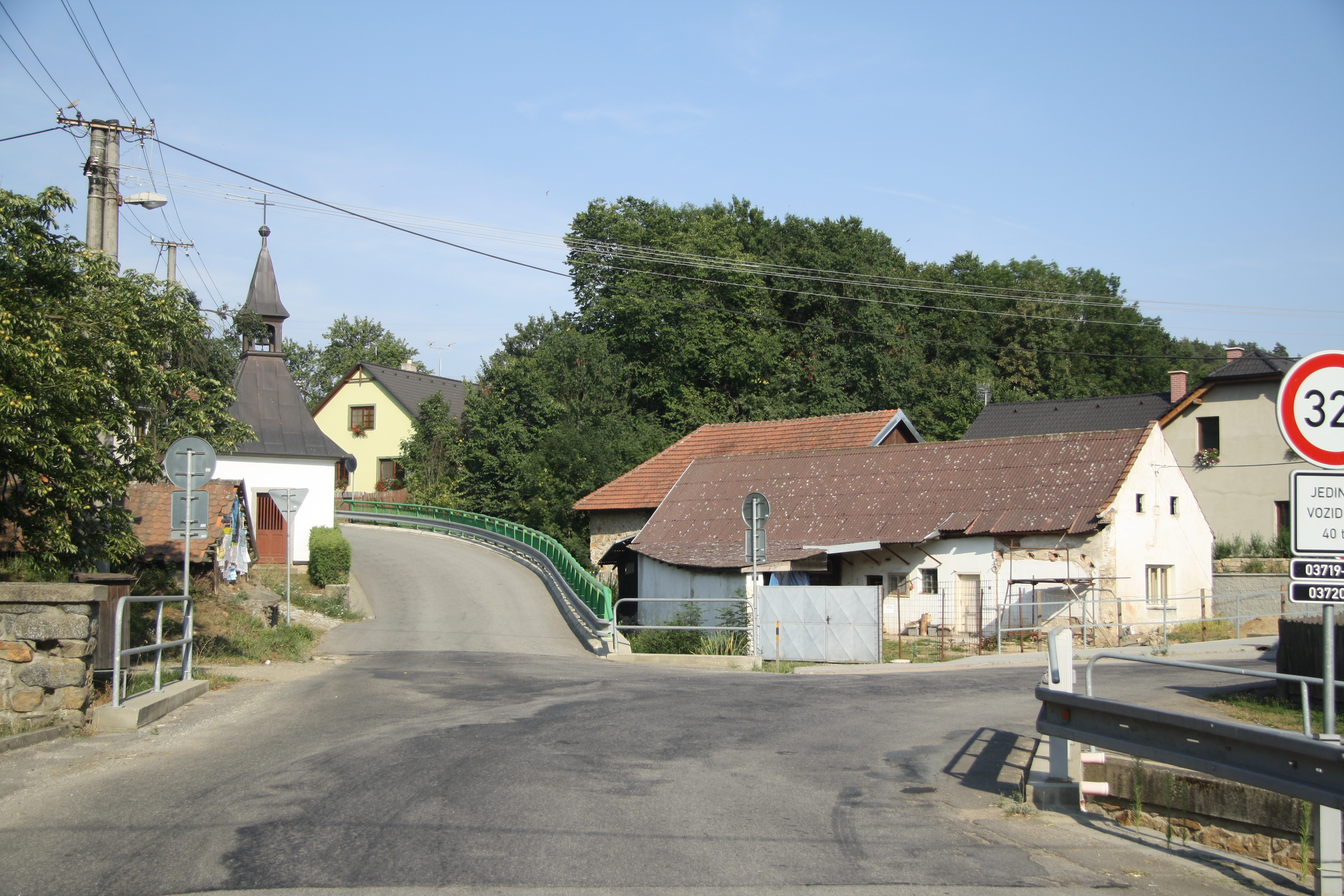 Center of Dolní Radslavice, Velké Meziříčí, Žďár nad Sázavou District.